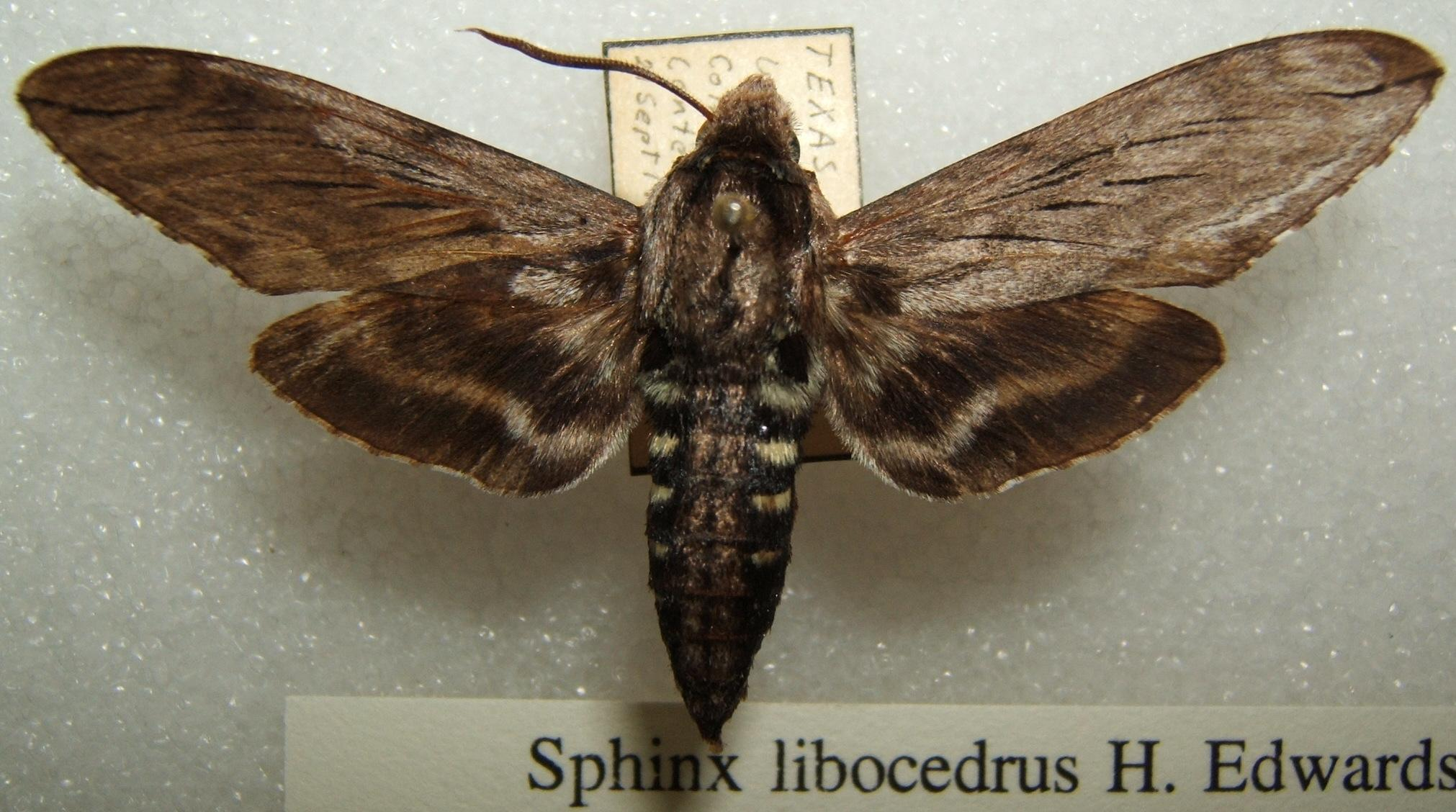 Sphinx libocedrus adult taken by Shawn Hanrahan at the Texas A&M University Insect Collection in College Station, Texas.